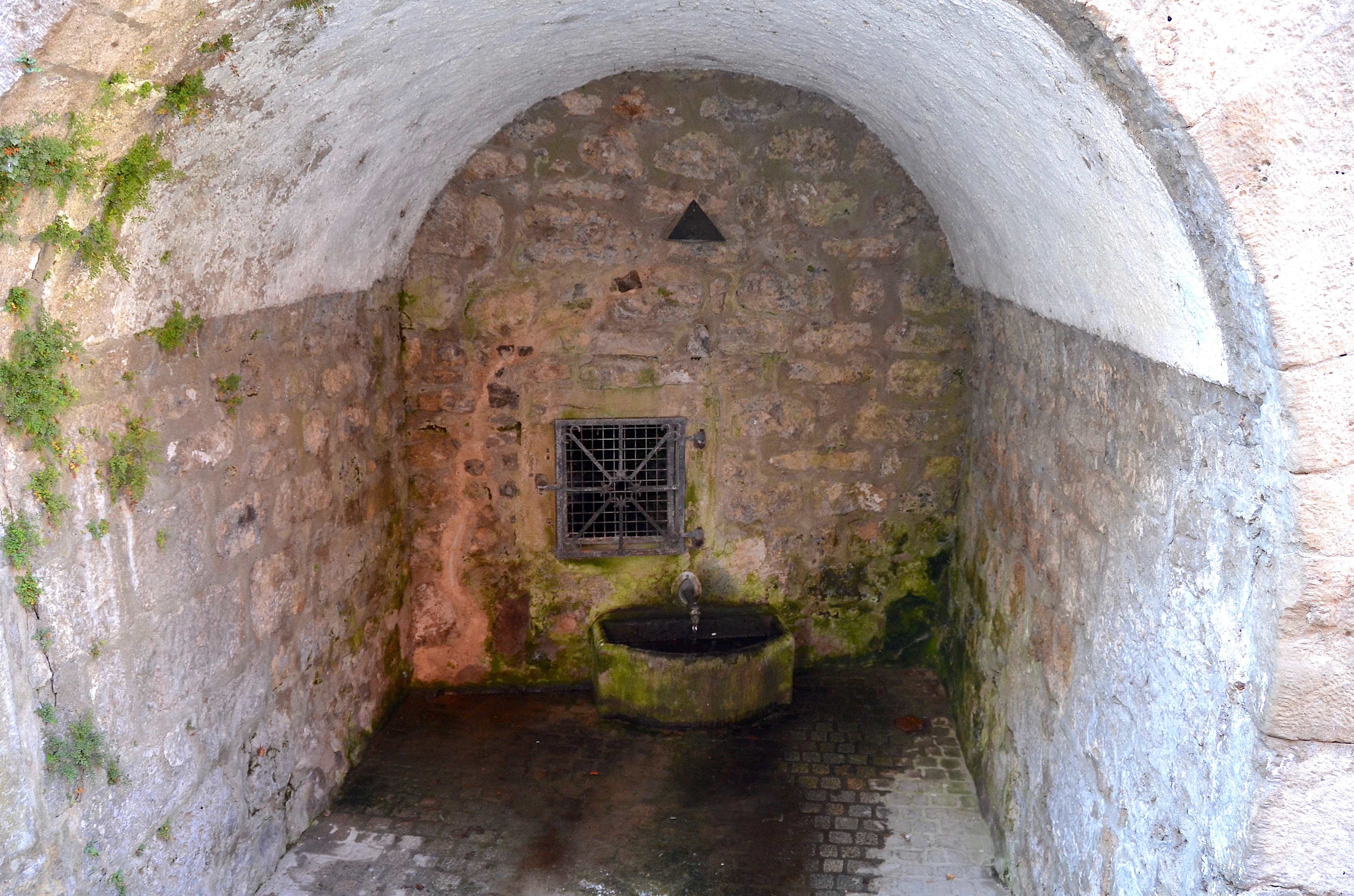 Hackbrunnen in Horb am Neckar (2018)